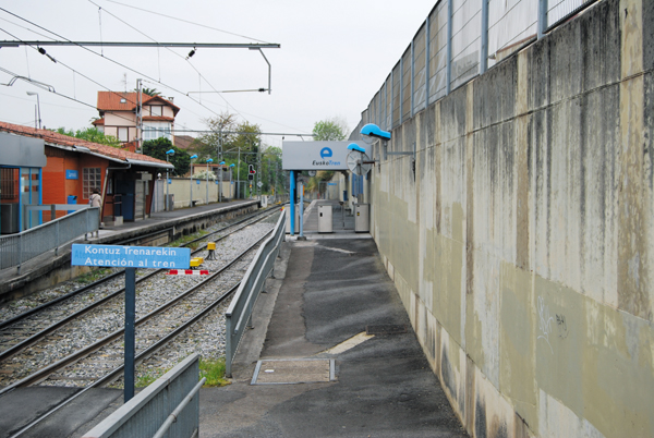 Euskotren Larrondo Loiu station